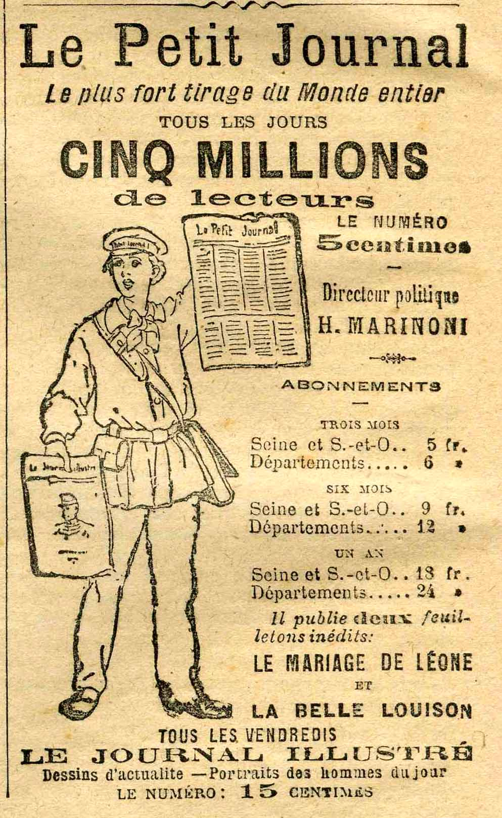 Advertisement for Le Petit Journal